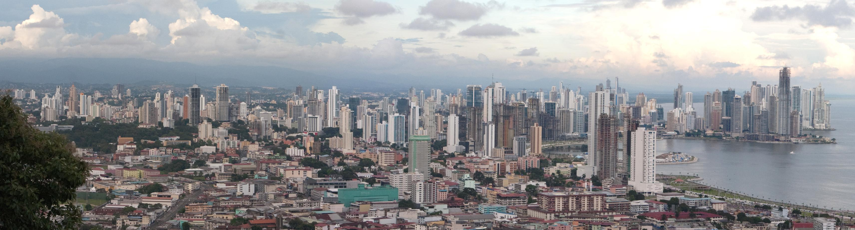 stitched together with hugin, 55mm lense. Panama City (Spanish: Panamá) is the capital and largest city of the Republic of Panama. It has a population of 813,097, with a total metro population of 1,206,792, and it is located at the Pacific entrance of the Panama Canal, at 8°58′N 79°32′W / 8.967°N 79.533°W / 8.967; -79.533. Panama City is the political and administrative center of the country. With an average GDP per capita of $38,900, Panama has been for 8 years in the top 5 places for retirement in the world according to International Living Magazine. Panama City has a dense skyline of mostly highrise apartment buildings and condos, but office complexes and hotels as well. Panama City is also an important hub for international banking and commerce.